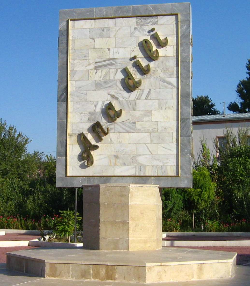 The monument for the Native (Azerbaijani) language in Nakhchivan, Azerbaijan